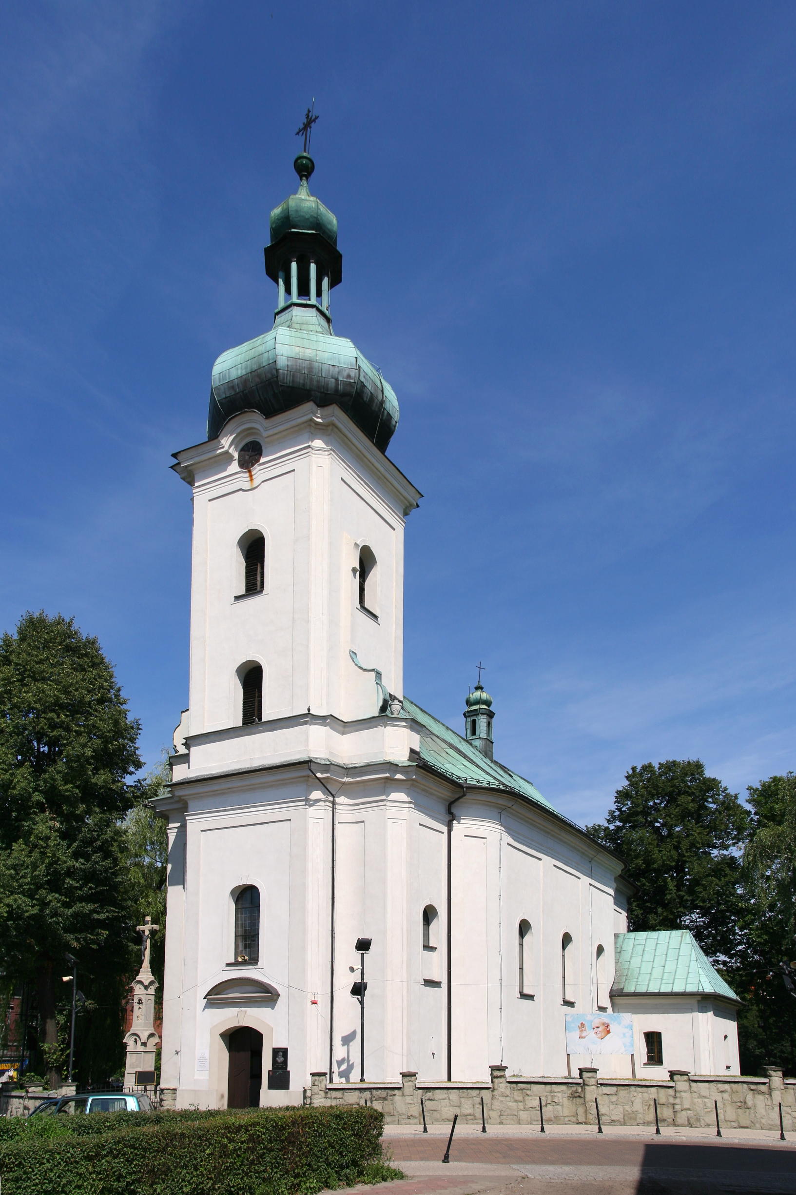 Sanctuary of Our Lady of Lourdes in Kochłowice, district of Ruda Śląska (Poland).